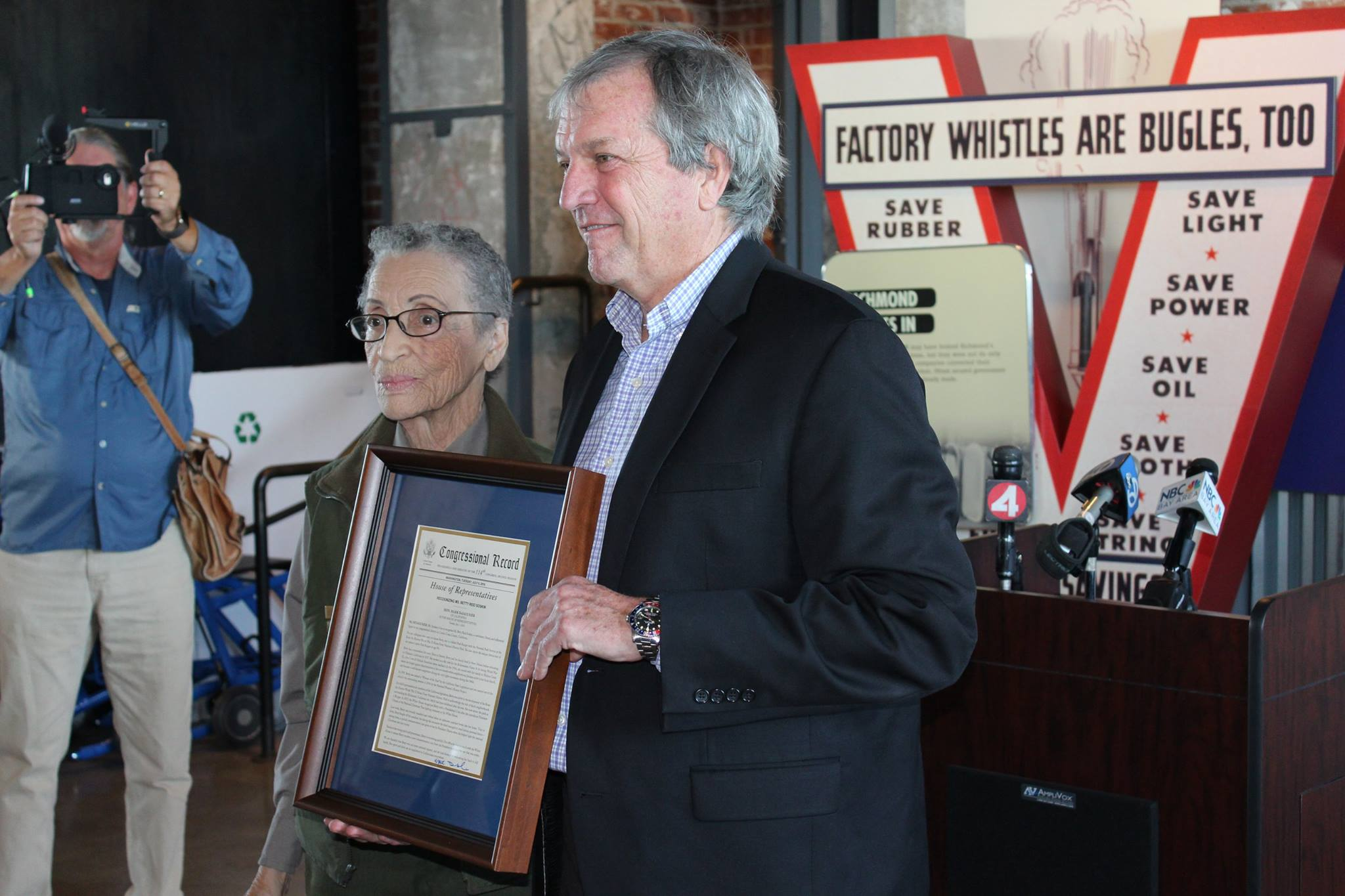 As part of #BlackHistoryMonth, we celebrate @RosieRiveterNPS and our friend, Betty Reid Soskin. As a park ranger for @NatlParkService, Betty shares the story of her experience during WWII and advocating for equality and a more just, fair, and prosperous society.